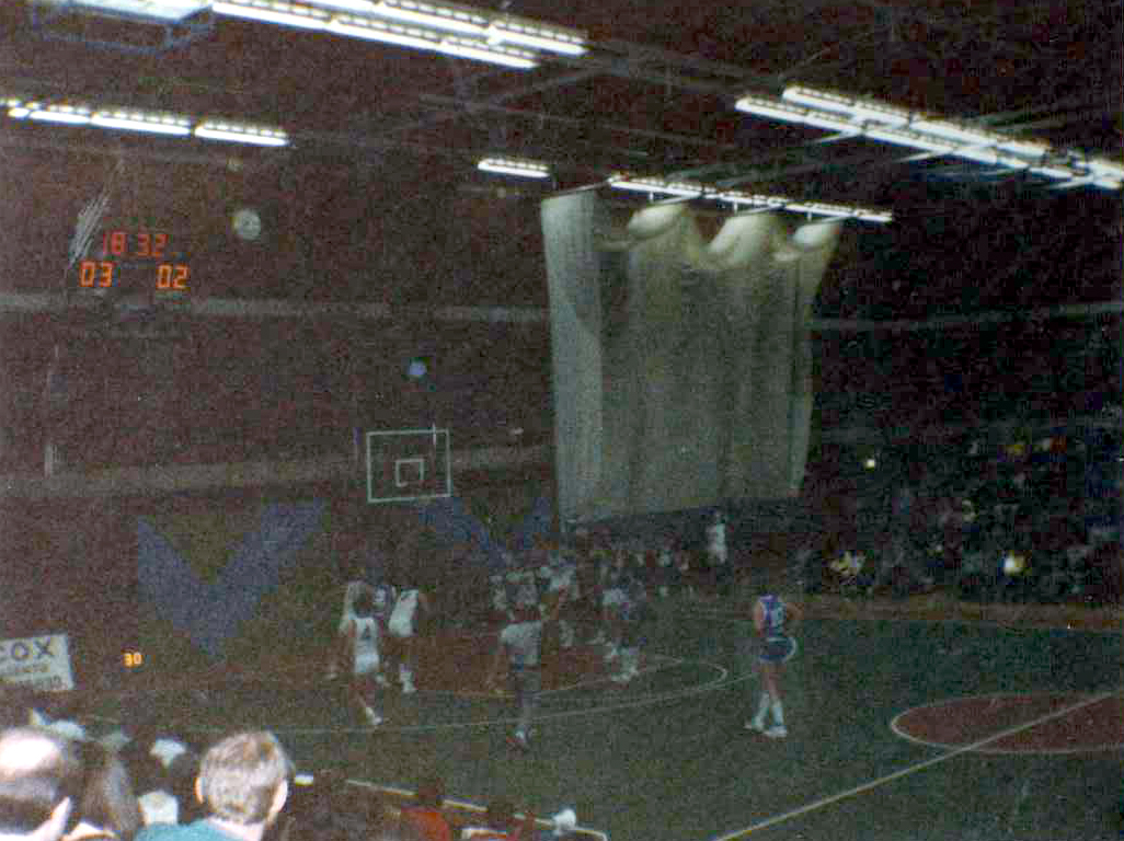 Portsmouth (in blue) at the free-throw line versus Crystal Palace, 26 March 1986